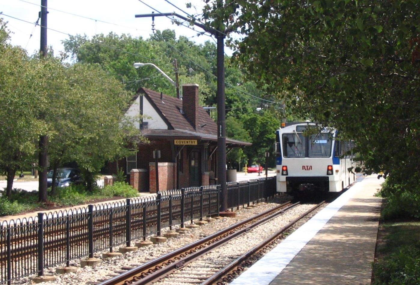 Coventry station on the Green Line of Cleveland RTA Rapid Transit